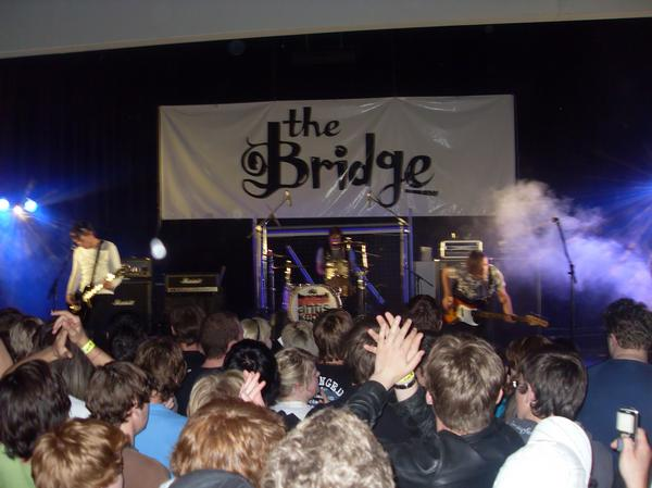 Antiskeptic performing in Sydney in September 2008